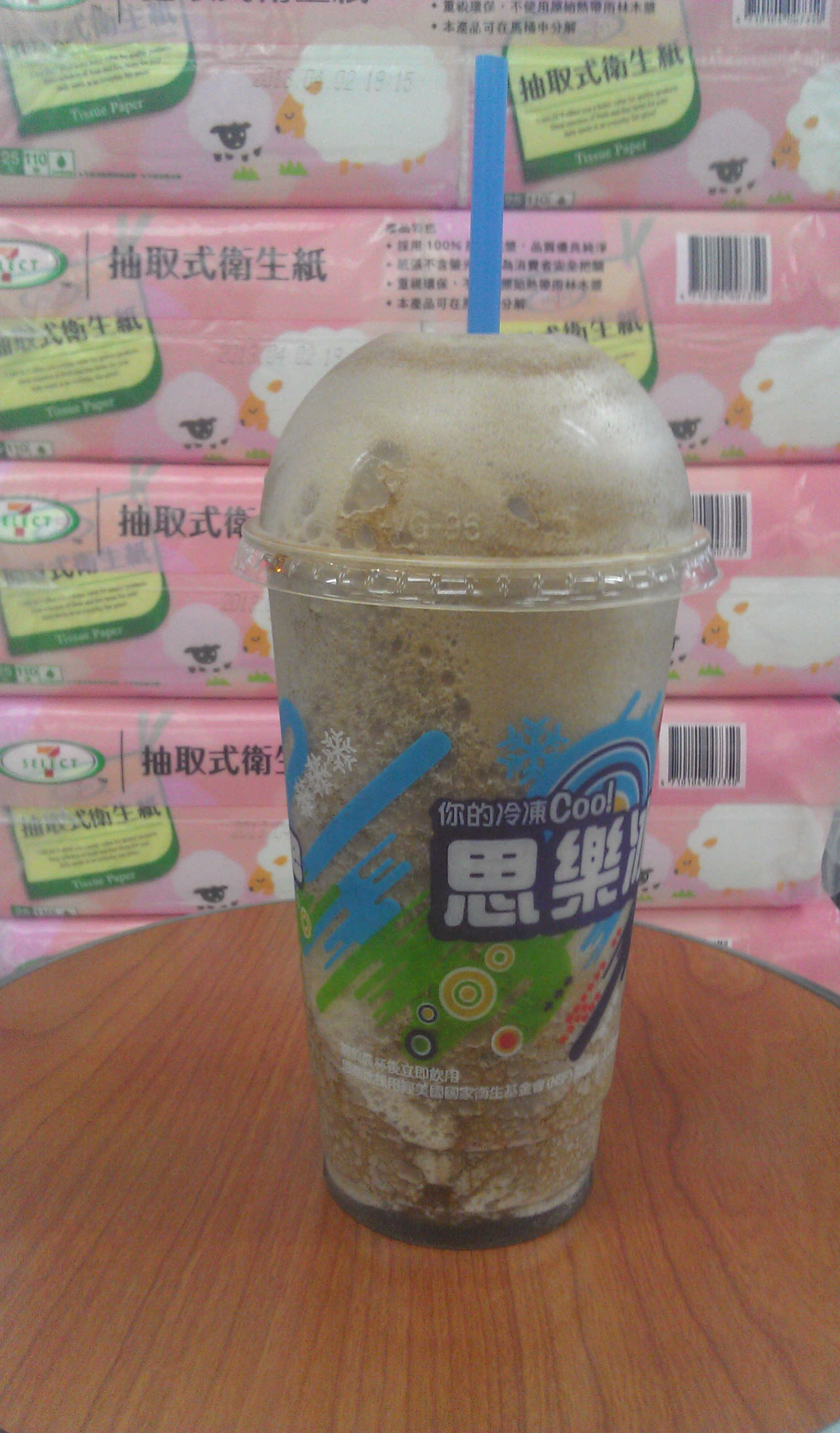 A cup of Slurpee sold in Taiwan